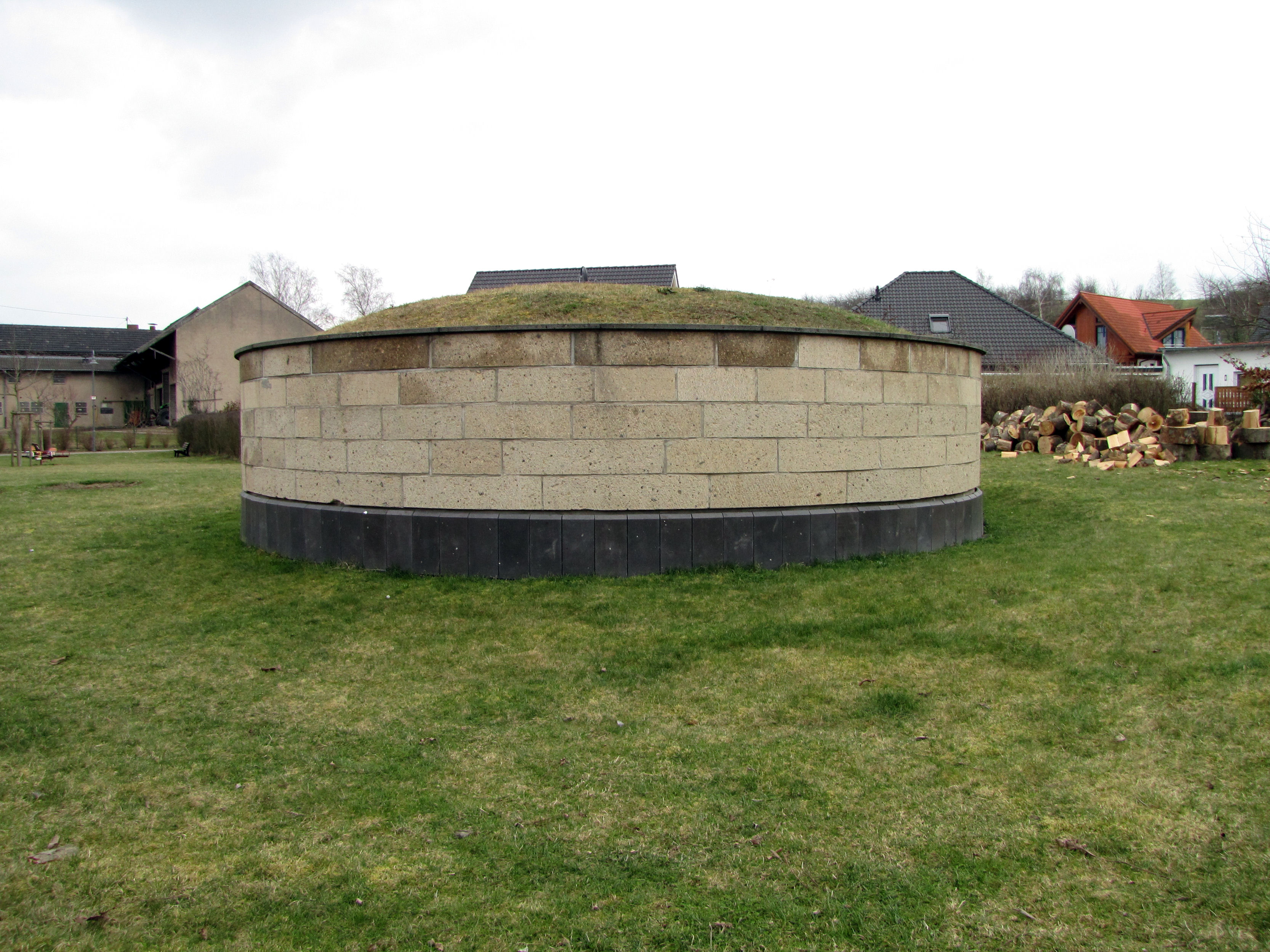 Tumulus of Ochtendung